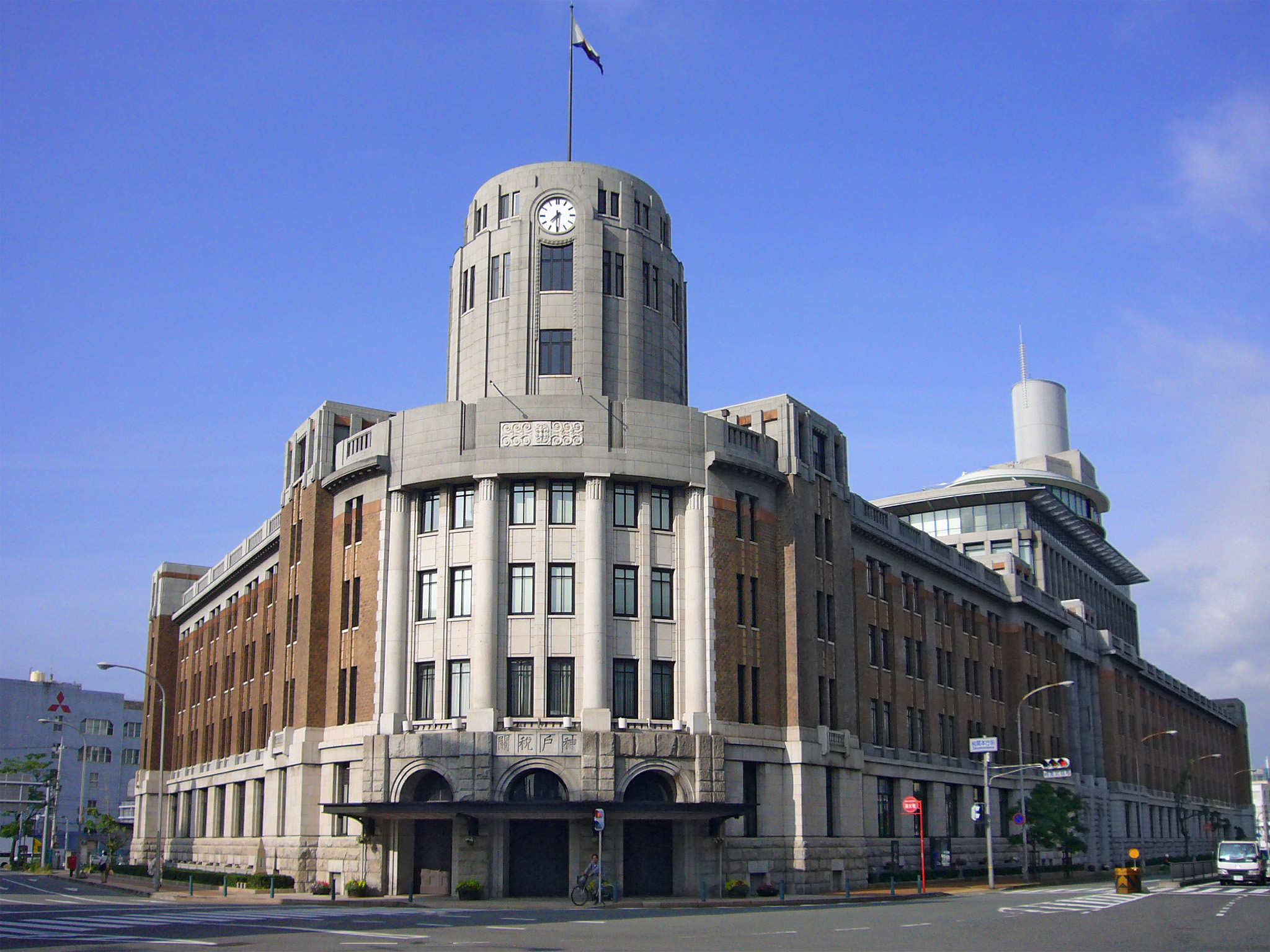 Kobe Customs in Kobe, Hyogo prefecture, Japan